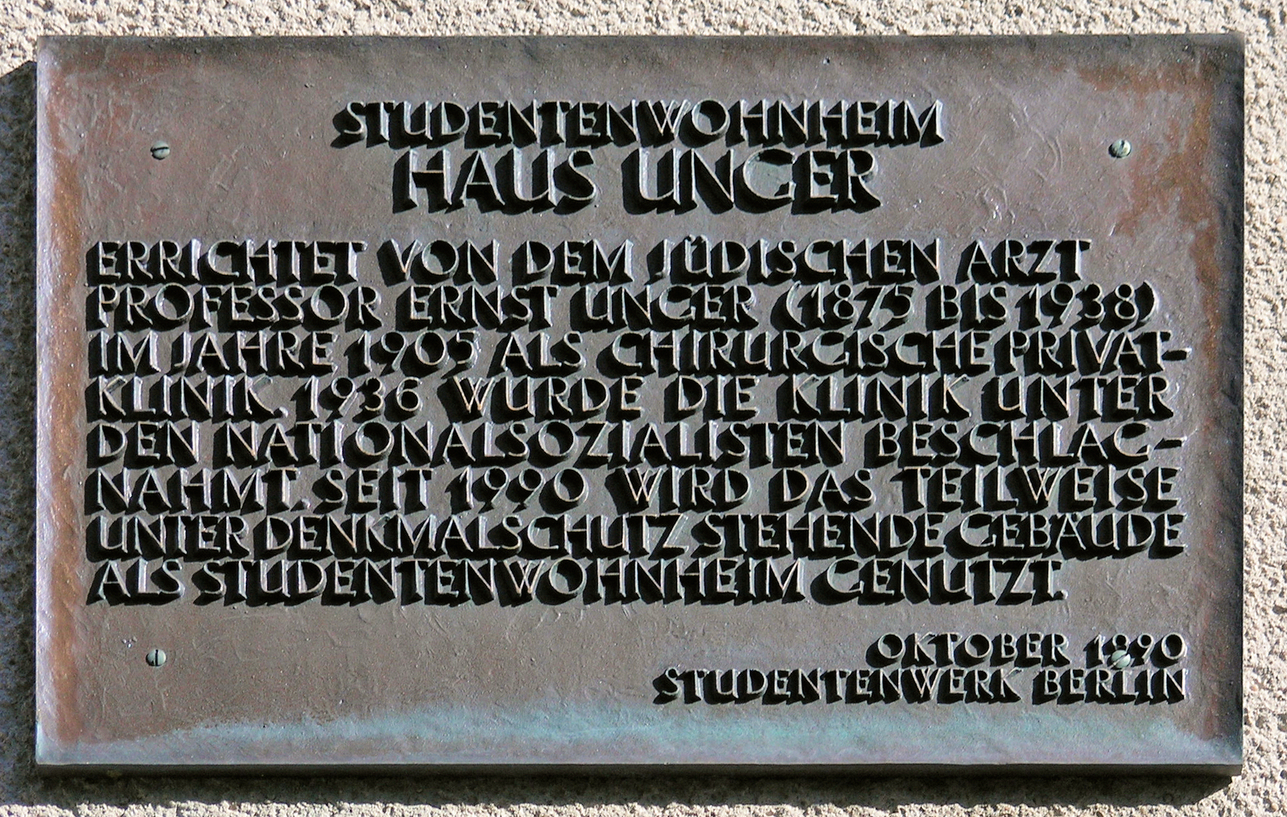 Memorial plaque, Ernst Unger, Derfflingerstr 21, Berlin-Tiergarten, Germany Koordinate:52°30′14″N 13°21′25″E / 52.50389°N 13.35694°E